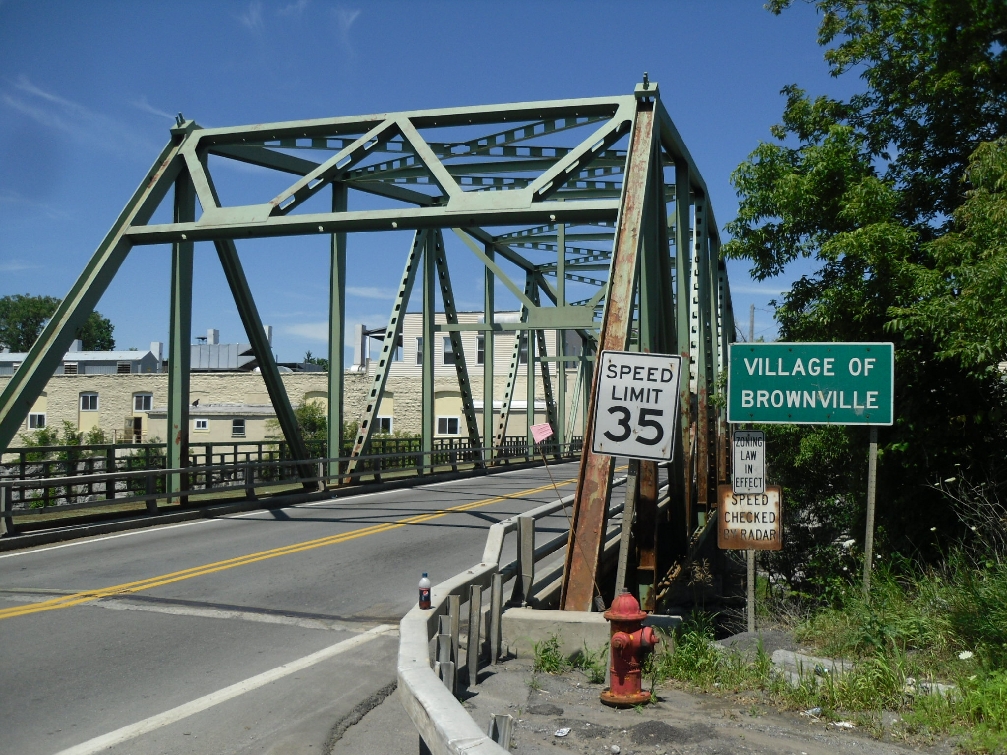 New York State Route 971H (signed as NY 12E) entering the village of Brownville, New York.